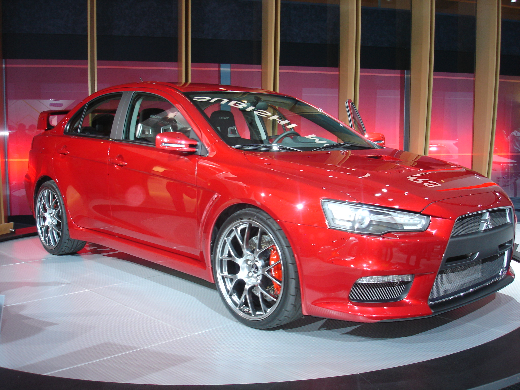 2008 Mitsubishi Lancer Evolution (Not yet on sale)